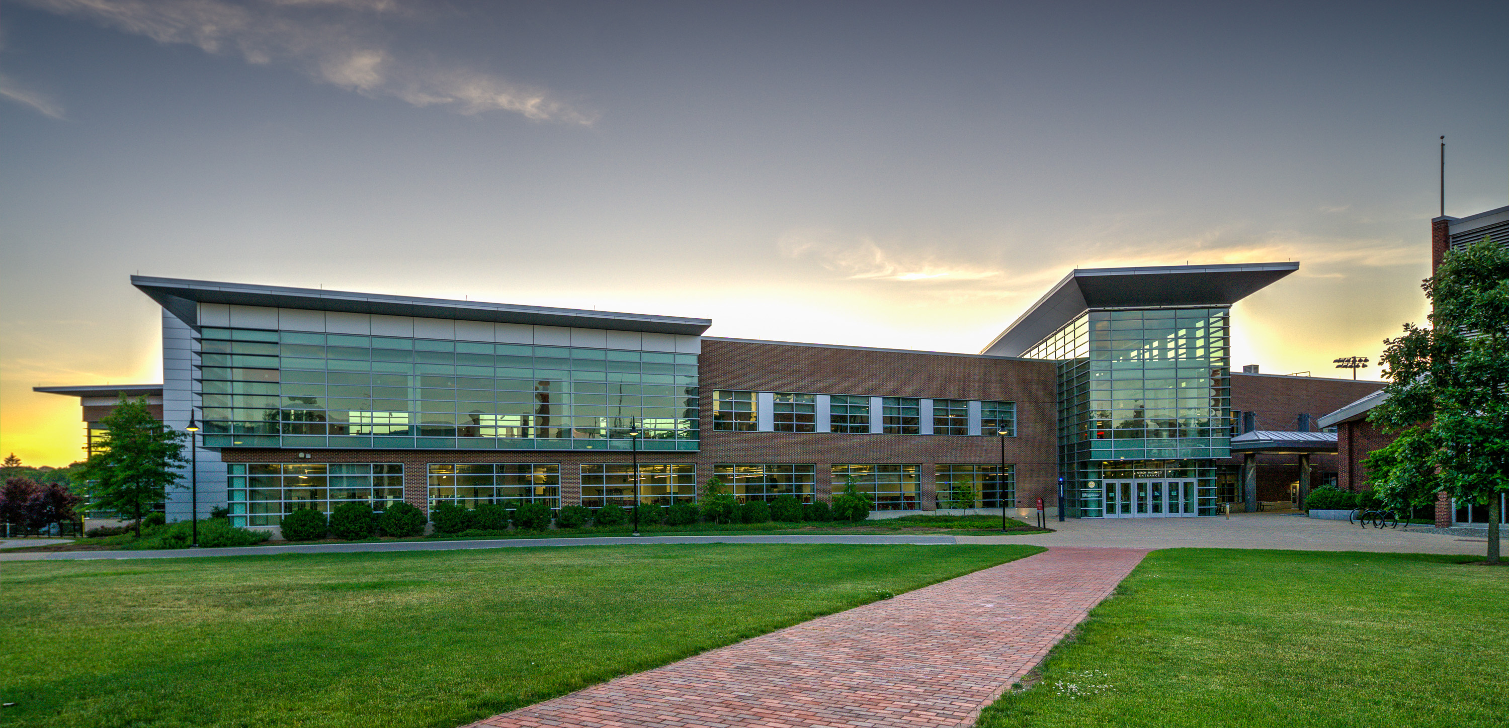 WPI Sports and Recreation Center, dedicated 2012. Architect: CannonDesign.